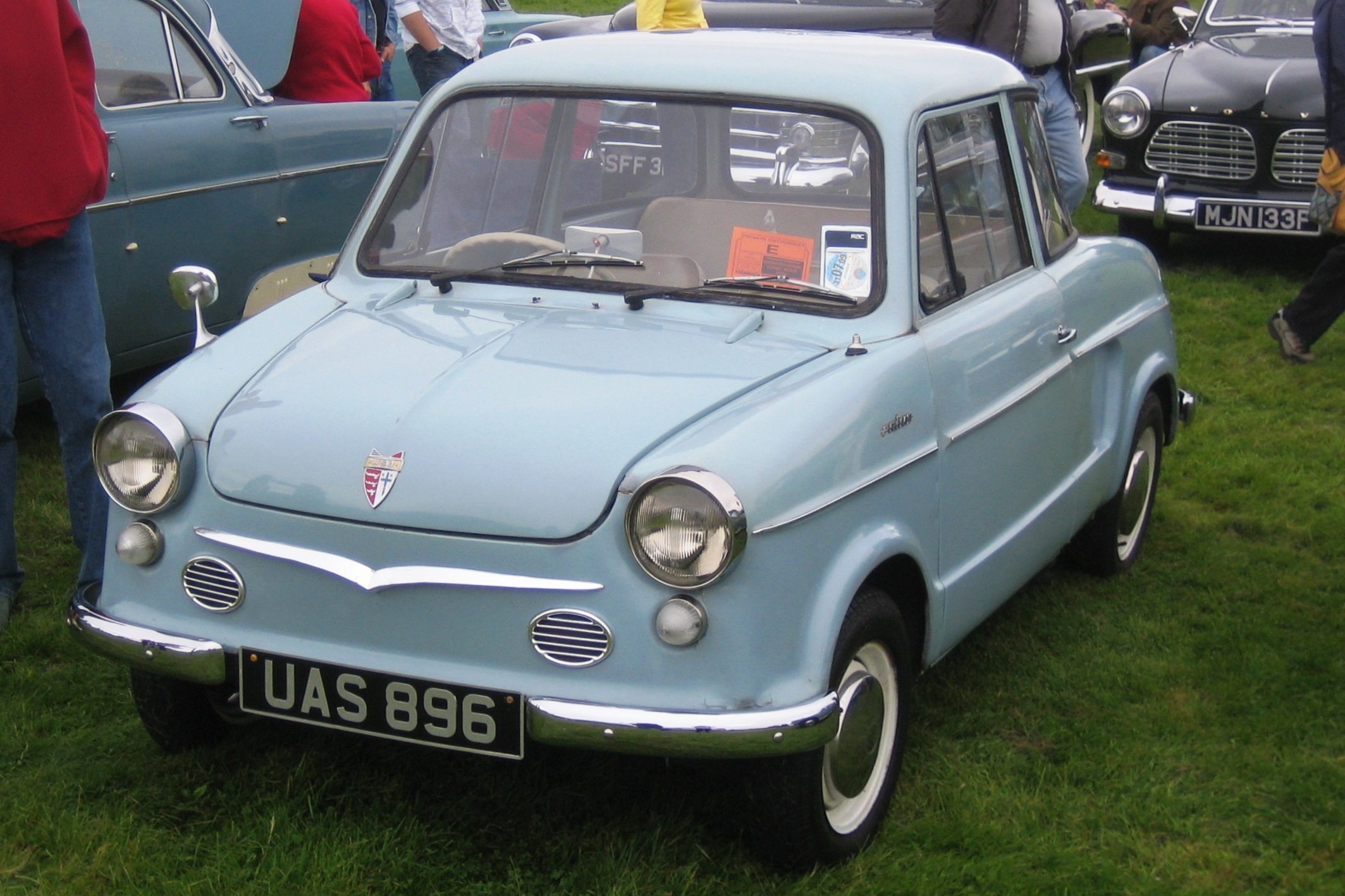 NSU Prinz at Knebworth Classic Car Show